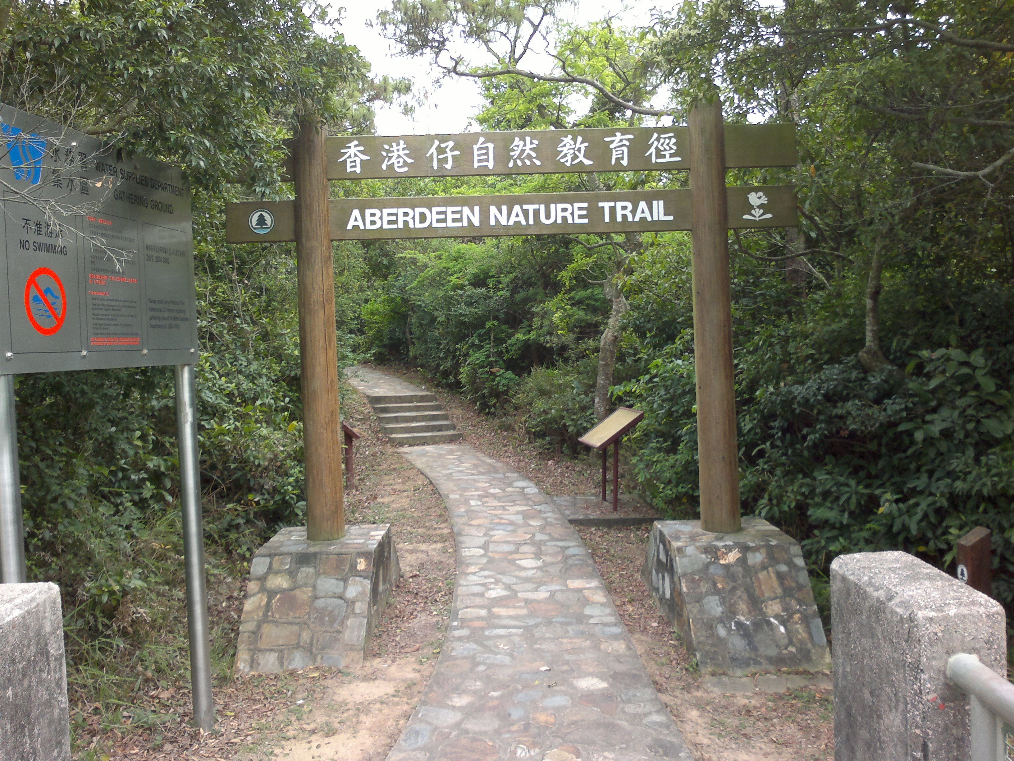 Aberdeen Nature Trail